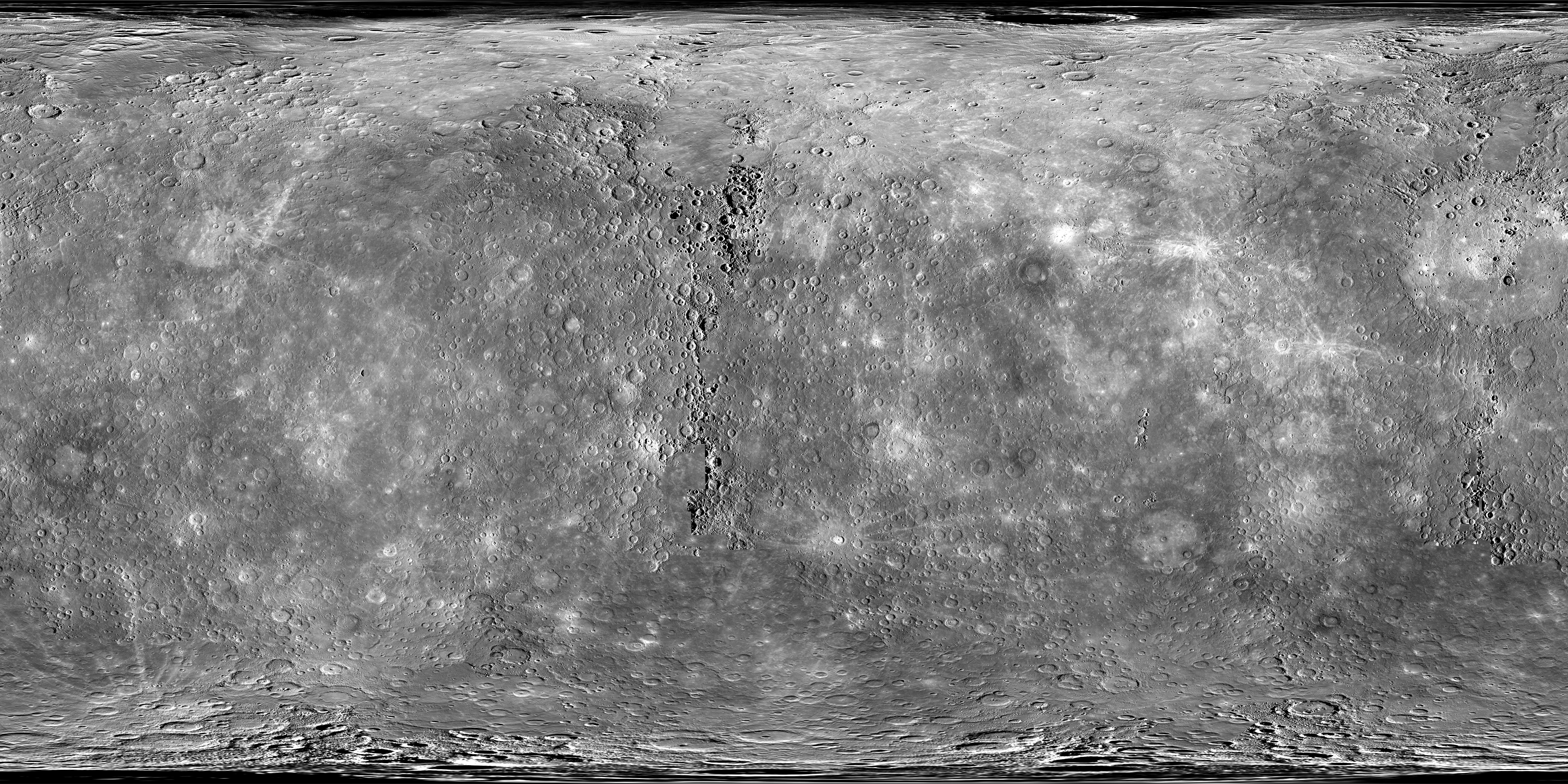 At the very end of 2012, MESSENGER obtained the final image needed to view 100% of Mercury's surface under daylight conditions. The mosaics shown here cover all of Mercury's surface and were produced by using the monochrome mosaic released by NASA's Planetary Data System (PDS) on March 8, 2013, as the base. The full resolution mosaics are available for download on MESSENGER's Global Mosaics webpage. To fill the area near the north pole, the PDS product was trimmed northward of 83°N and an average mosaic that extended from 82.5°N to 90°N was used, averaging the 0.5° latitude overlap between the PDS mosaic and the average north polar mosaic. To fill the area near the south pole, the PDS product was trimmed southward of 85.5°S and an average mosaic that extended from 85°S to 90°S was used, again averaging the 0.5° latitude overlap. Any remaining gaps in the global mosaic were filled by using images obtained in support of the high-incidence imaging campaign. This image is a brightness-corrected version of the original (Mercury - complete mono basemap 2500mpp equirectangular.png). Brightness levels were tuned from [0 - 255] to [30 - 180] for increase of contrast.